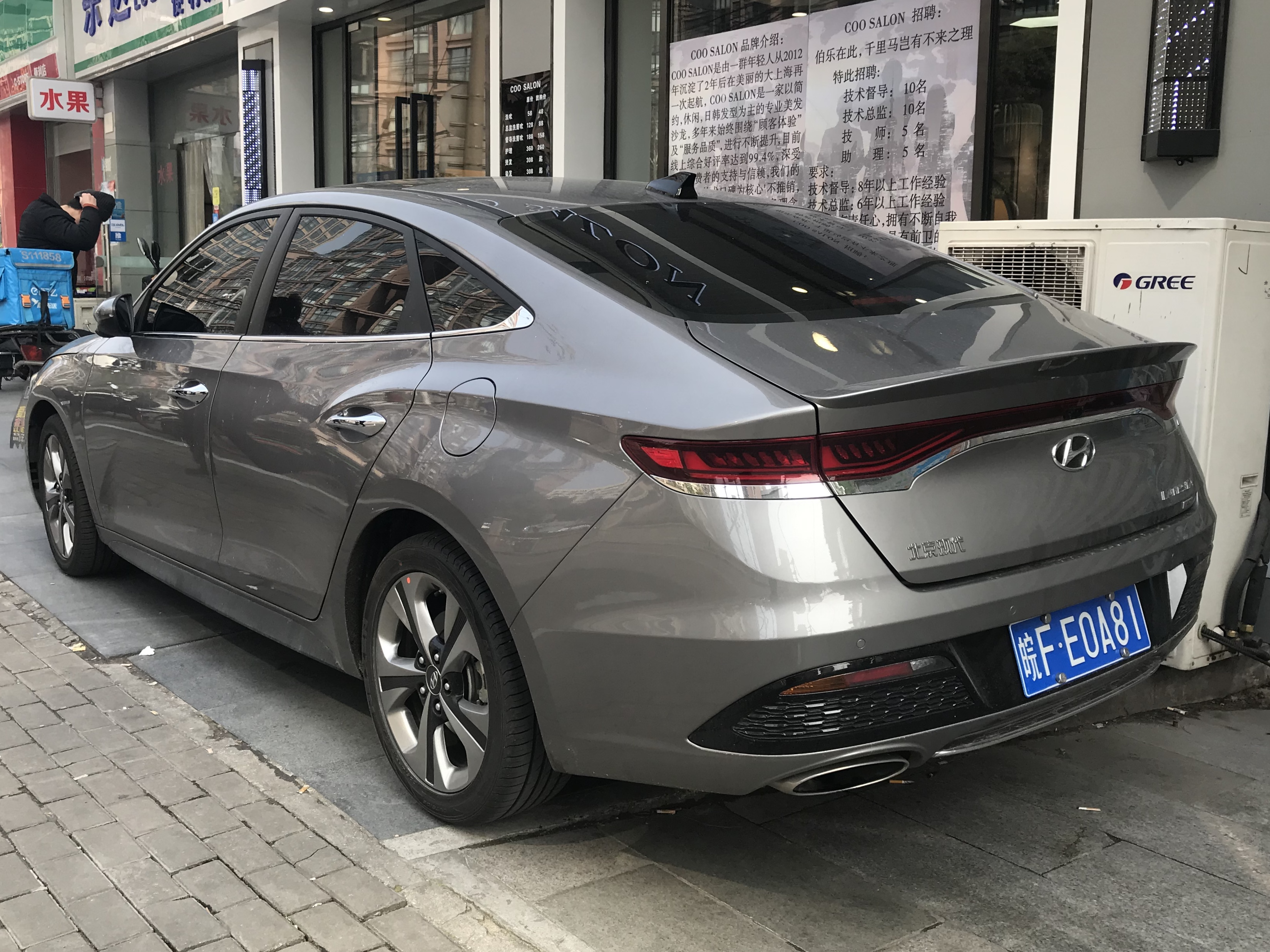 Hyundai Lafesta